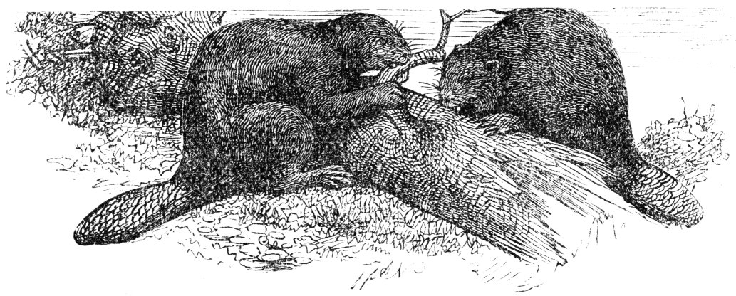 "Eurasian beaver (Castor fiber)"